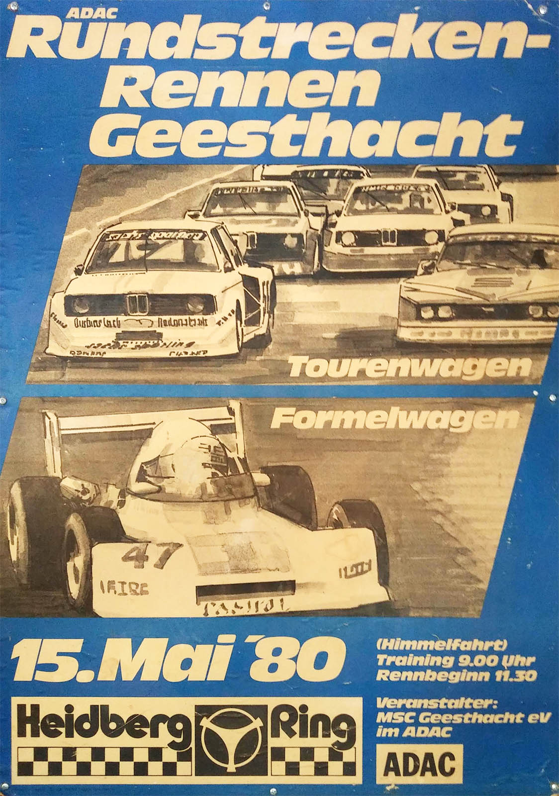 Poster of the first opening racing event on the Heidbergring track from 15.5.1980